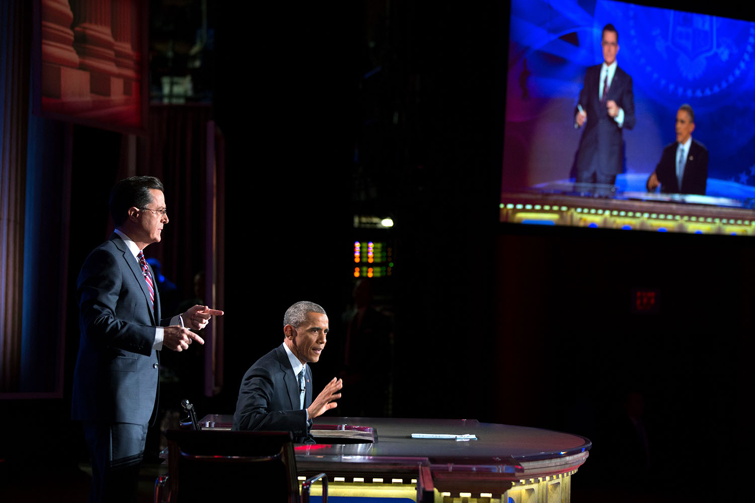 President Barack Obama takes over for Stephen Colbert during "The Wørd" segment of "The Colbert Report with Stephen Colbert" during a taping at George Washington University's Lisner Auditorium in Washington, D.C., Dec. 8, 2014. (Official White House Photo by Pete Souza)